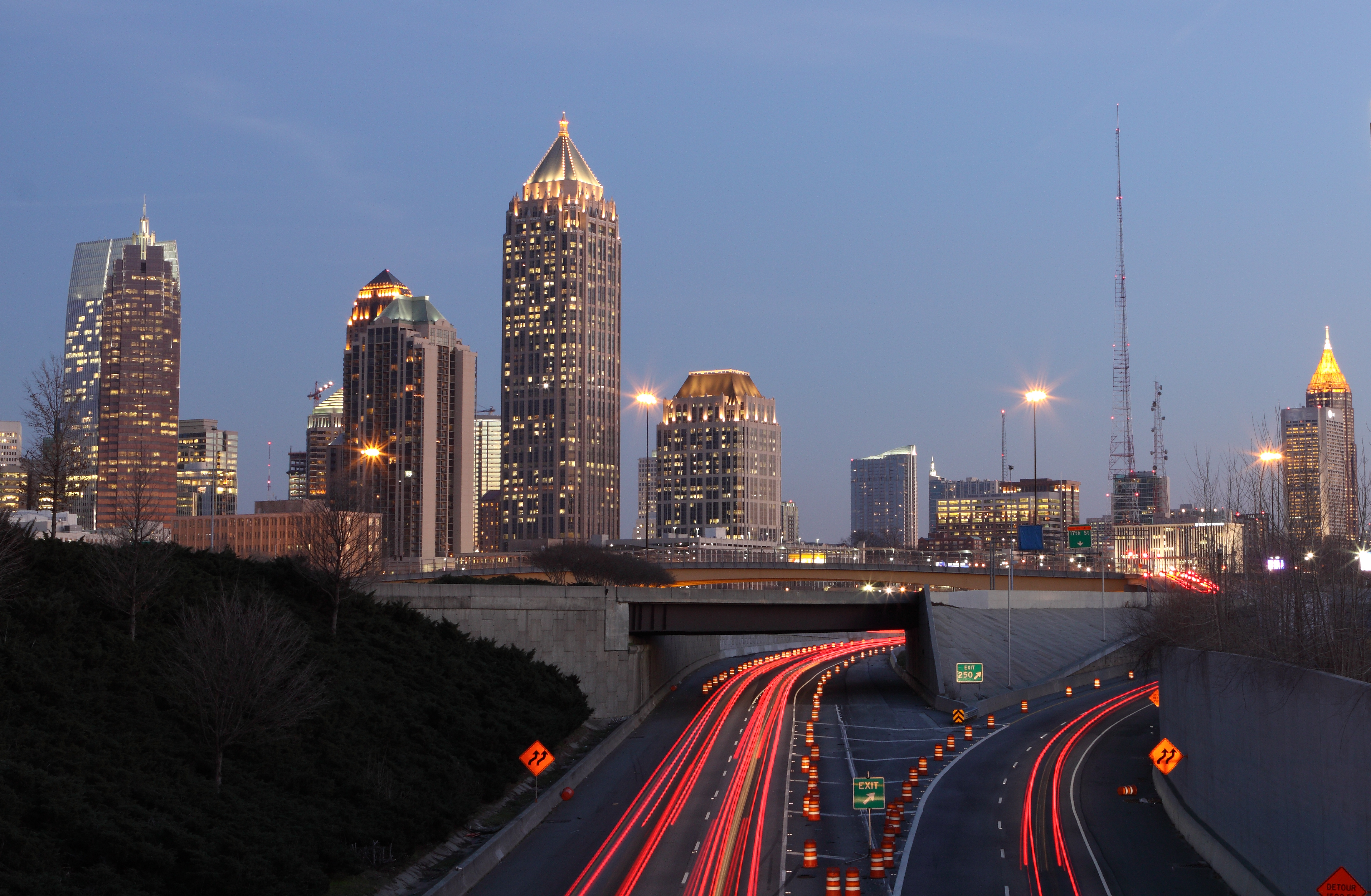 This is an extended exposure of Midtown Atlanta Georgia from Interstate 75 facing South.